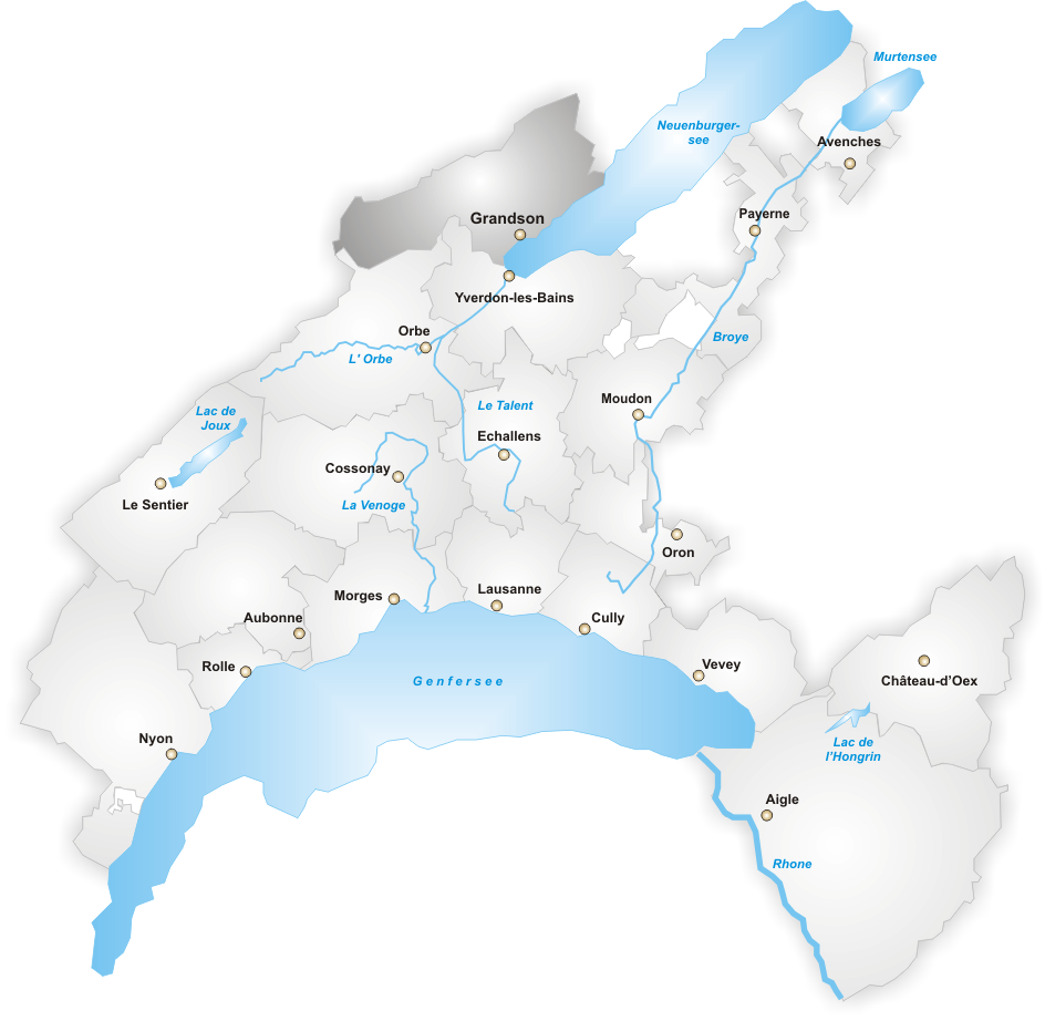 District Grandson until 2007